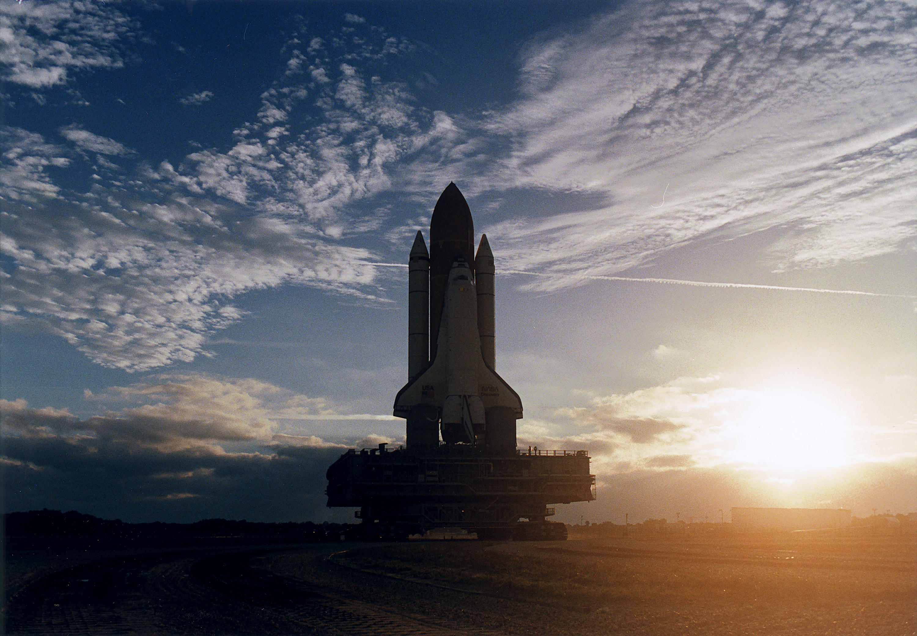 The rising sun and some scattered clouds provide a picturesque backdrop for the Space Shuttle Discovery as it travels along the Crawlerway toward Launch Pad 39A in preparation for the STS-83 mission. The Shuttle is on a Mobile Launch Platform, and the entire assemblage is being carried by a large tracked vehicle called the Crawler Transporter. A seven-member crew will perform the second sevicing of the orbiting Hubble Space Telescope (HST) during the 10-day STS-82 flight, which is targeted for a February 11 liftoff.